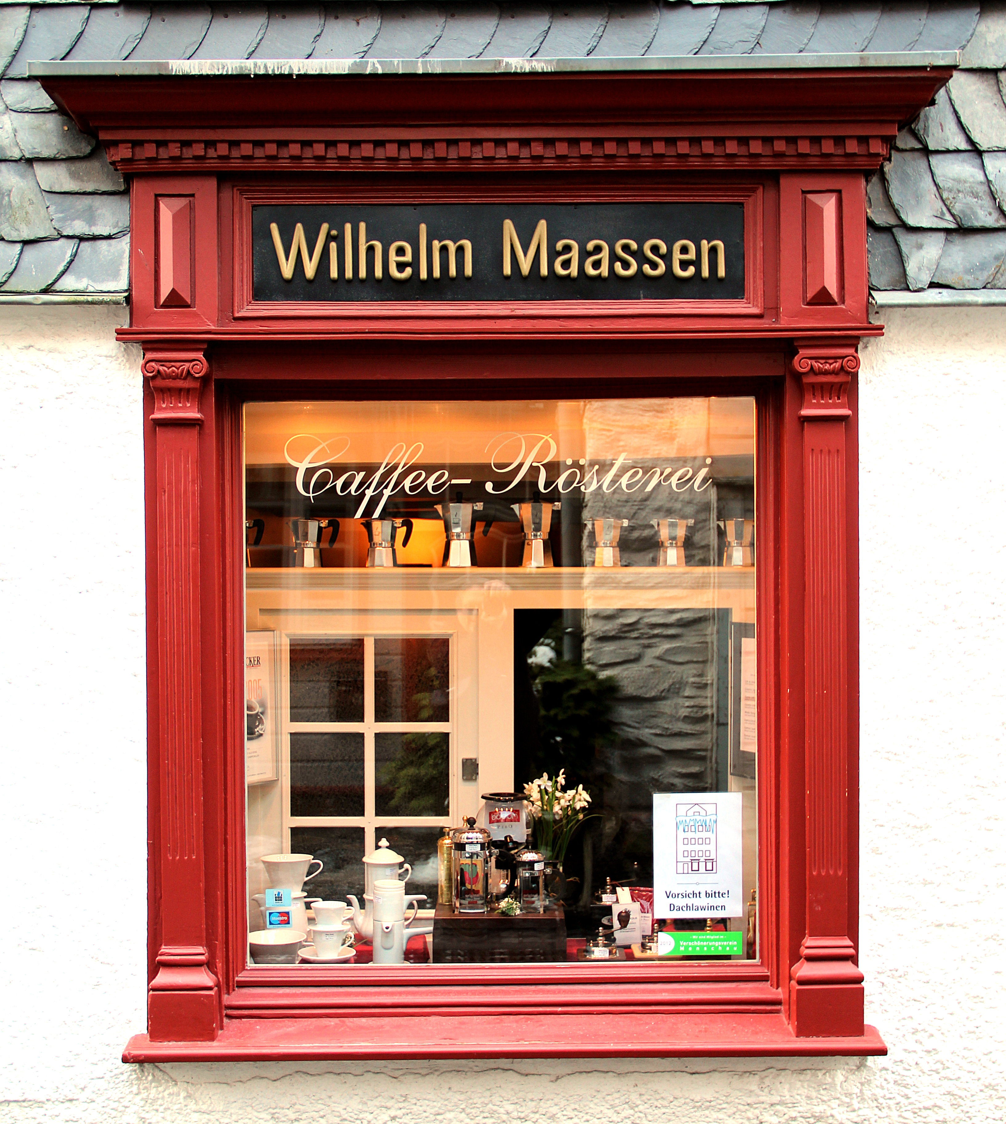 Monschau (Germany), Stadtstraße 11. - Window a coffee-roaster shop.